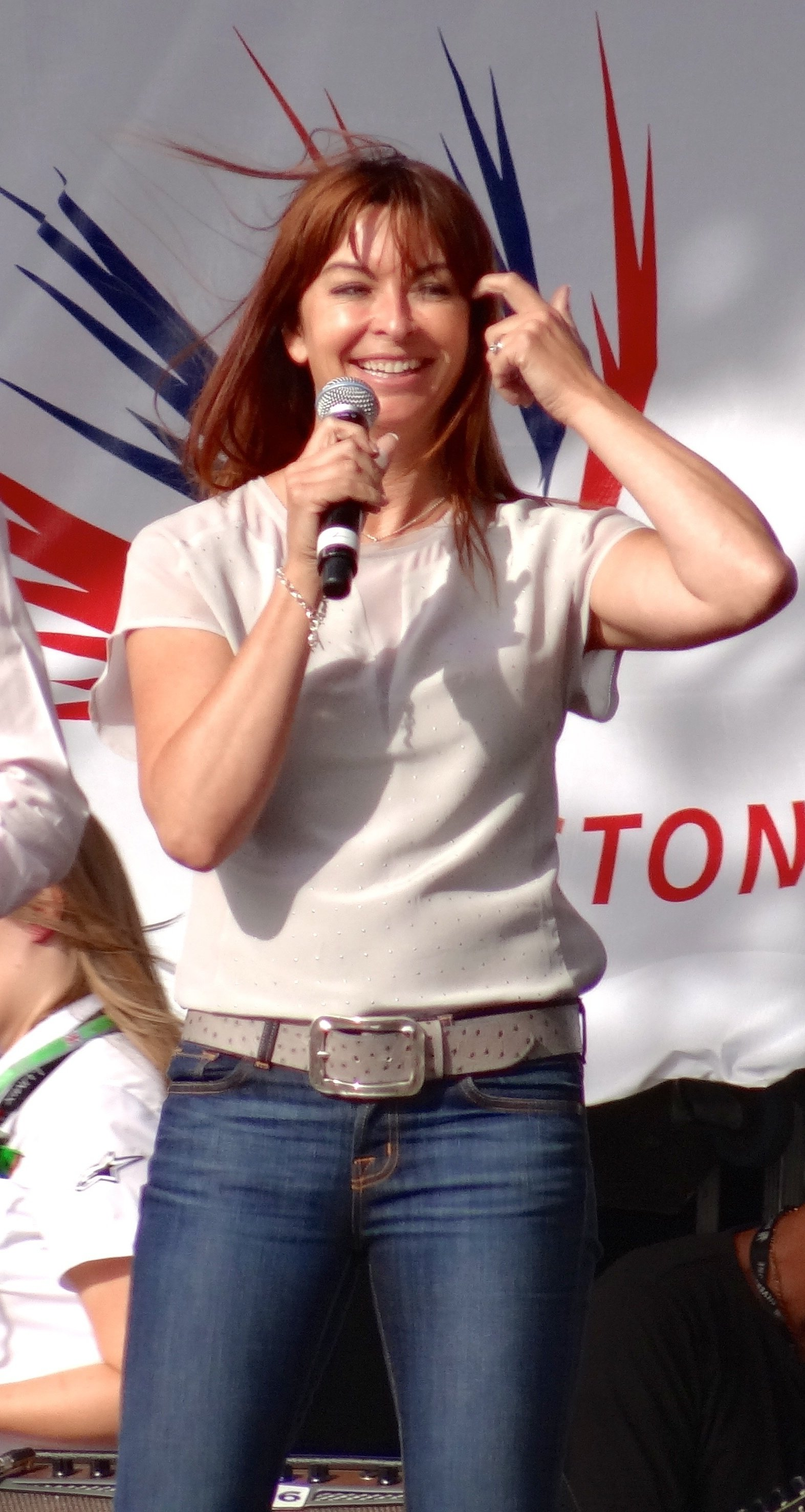 The BBC F1 presenters at the 2013 British Grand Prix, Silverstone Circuit. From left to right: David Coulthard, Suzi Perry and Eddie Jordan. Cropped to only show SP.